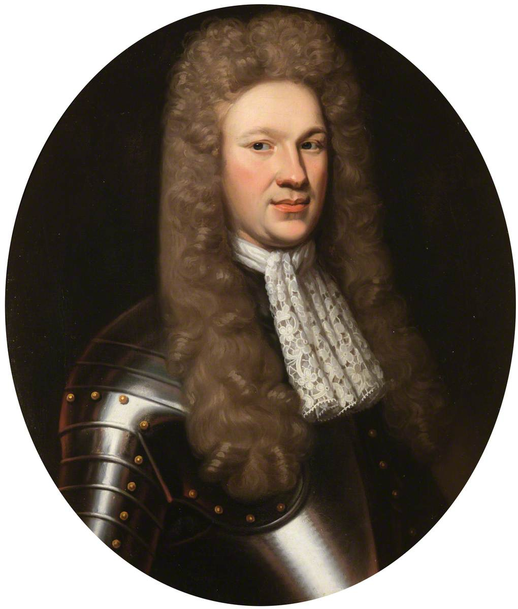 Sir Thomas Burnett of Leys 3rd Baronet & 15th Laird member of Scottish Parliament 1663-1714. half-length in armour & lace cravat with long flowing wig in painted oval.